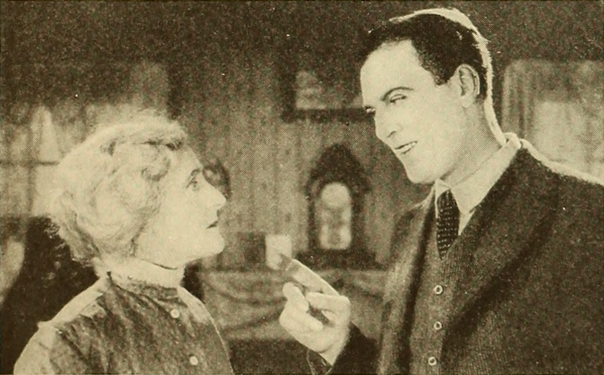 Kate Bruce and Thomas Meighan in The City of Silent Men (1921)